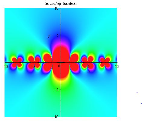 Tanc'(z) Im plot